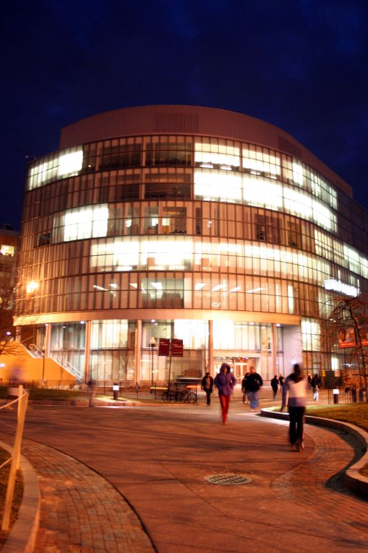 Evening shot of Behrakis Health Sciences Center, Northeastern University, built between 2001 and 2006.